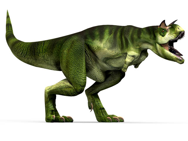 Carnotaurus